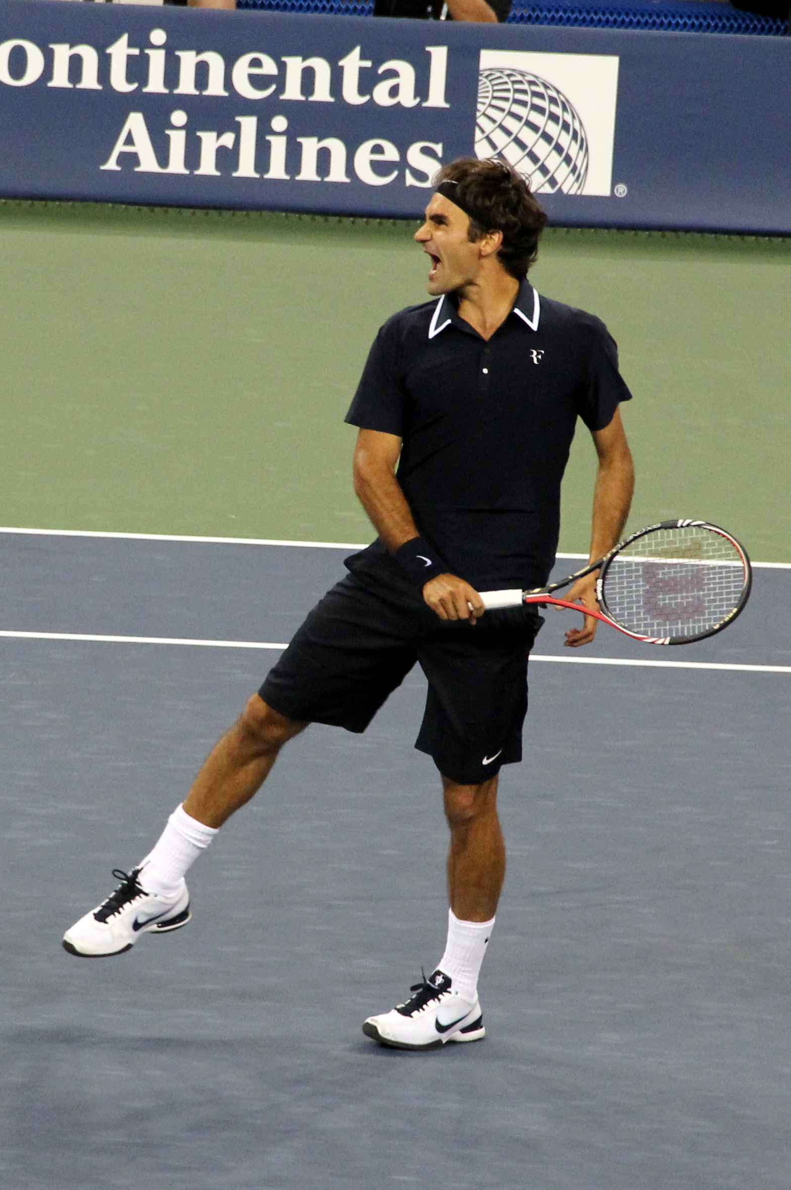 Roger Federer on Wednesday night at the US Open where he won against Robin Soderling. The Cosmopolitan is in New York for the 2010 US Open, inviting attendees and guests to experience signature views from our Overlook and in our custom designed suite with prime-stadium seating. For more information on The Cosmopolitan visit